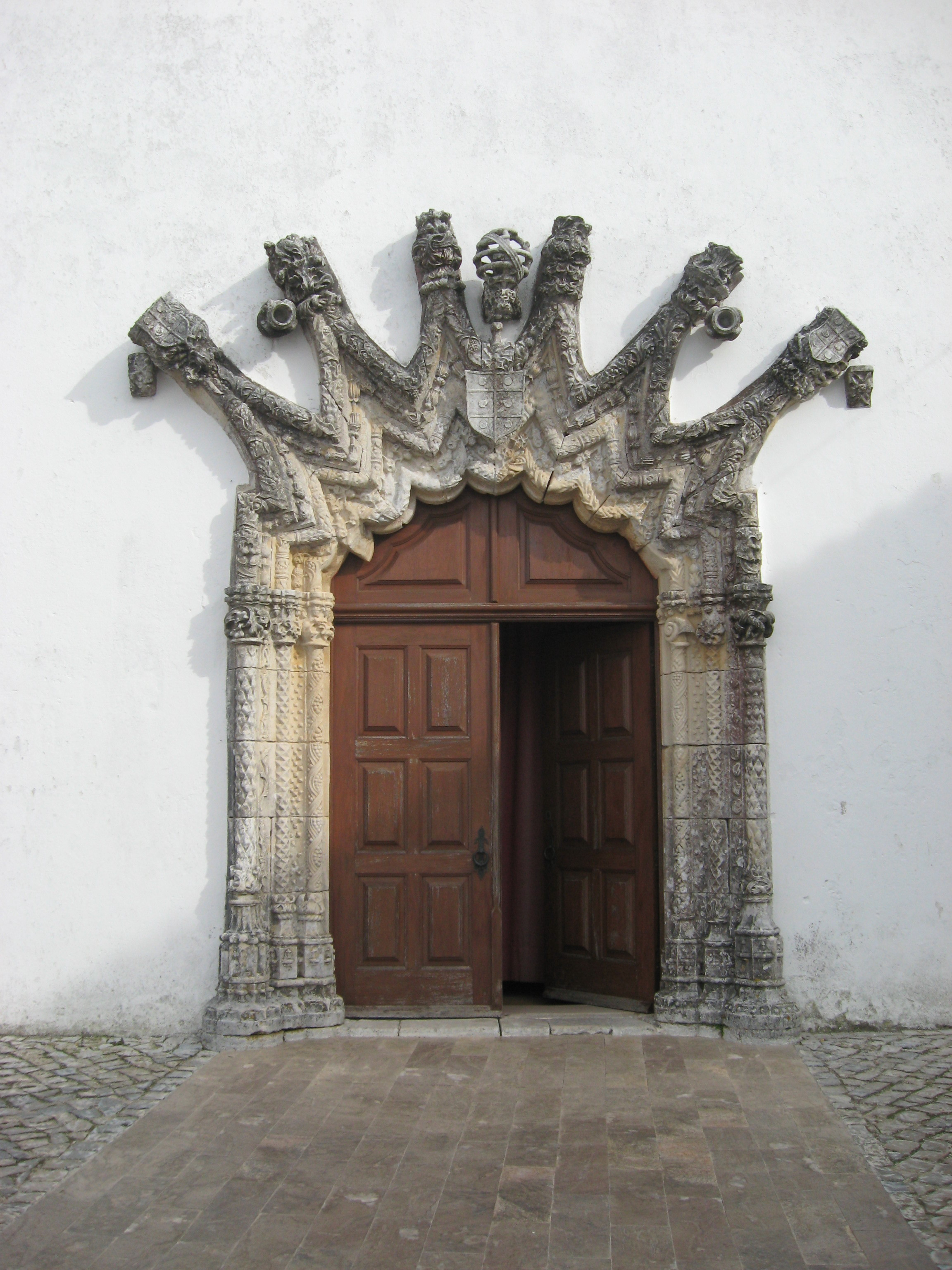 Alcobaça, Portugal, Mosteiro, Coutos de Alcobaça, Vestiaria founded 1506 by the monks; church, Igreja de Nossa Senhora da Ajuda, Manueline door, beginning of 17th century